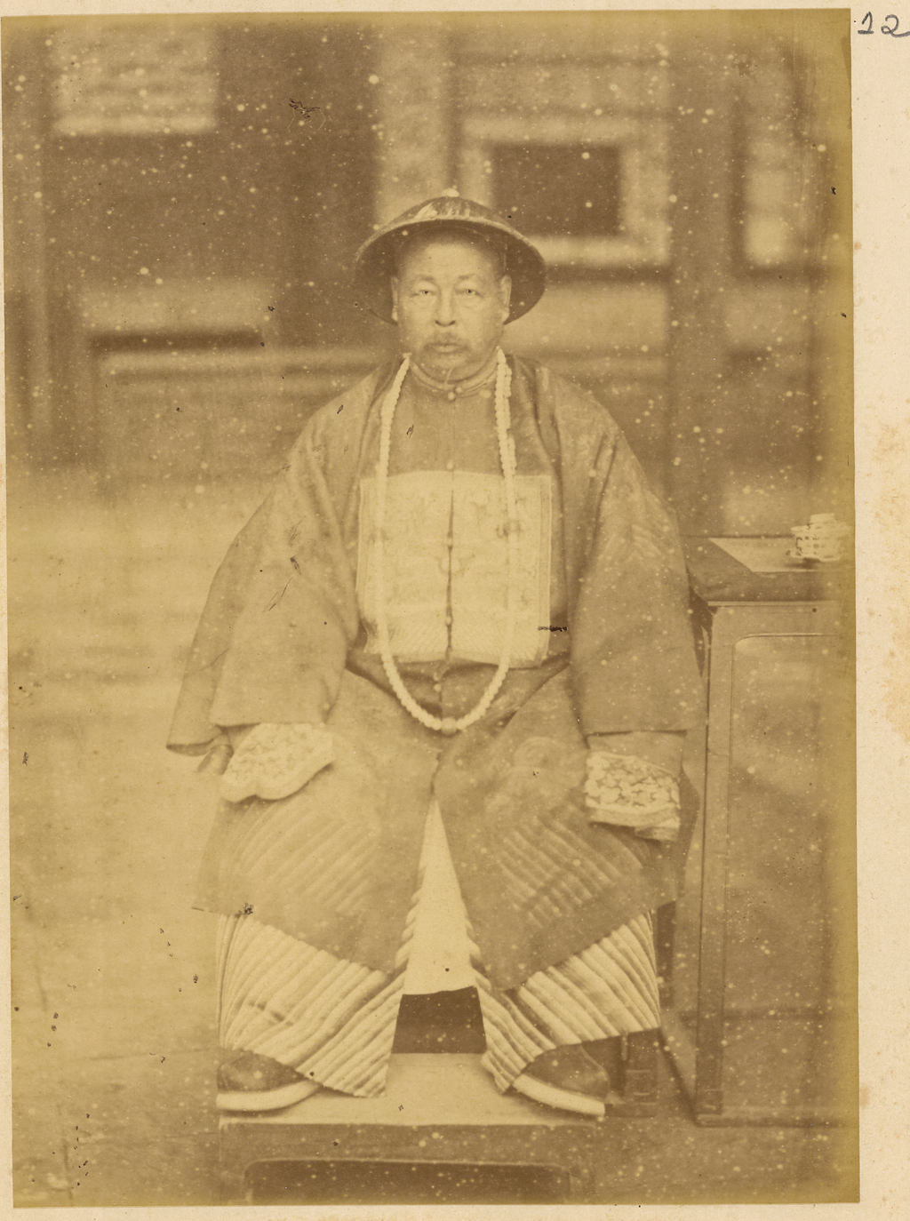 In 1874-75, the Russian government sent a research and trading mission to China to seek out new overland routes to the Chinese market, report on prospects for increased commerce and locations for consulates and factories, and gather information about the Dungan Revolt then raging in parts of western China. Led by Lieutenant Colonel Iulian A. Sosnovskii of the army General Staff, the nine-man mission included a topographer, Captain Matusovskii; a scientific officer, Dr. Pavel Iakovlevich Piasetskii; Chinese and Russian interpreters; three non-commissioned Cossack soldiers; and the mission photographer, Adolf Erazmovich Boiarskii. The mission proceeded from Saint Petersburg to Shanghai via Ulan Bator (Mongolia), Beijing, and Tianjin, and then followed a route along the Yangtze River, along the Great Silk Road through the Hami oasis, to Lake Zaysan, back to Russia. Boiarskii took some 200 photographs, which constitute a unique resource for the study of China in this period. Most of the photographs are included in this album, which later became part of the Thereza Christina Maria Collection assembled by Emperor Pedro II of Brazil and given by him to the National Library of Brazil. Chinese; Government officials; Memory of the World; Portrait photographs; Qing dynasty, 1644-1911; Zuo, Zongtang, 1812-1885